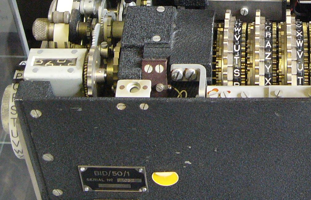 BID sticker on Portex cipher machine